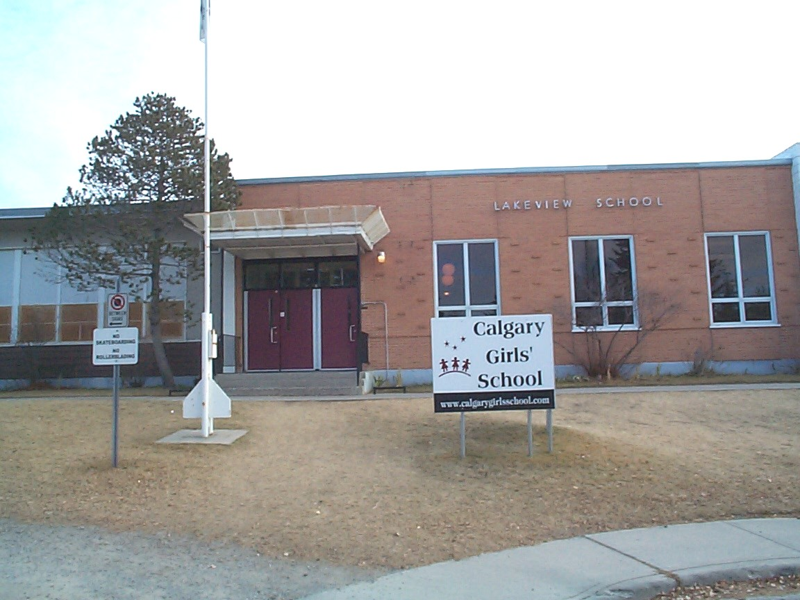 Subject: Calgary Girls' School (housed in Lakeview School building) Description: The entrance to the school at 6304 Larkspur Way SW, Calgary, Alberta. Originally the public Lakeview School was located in the building, but that school was closed, and the new charter school (Calgary Girls' School) opened in 2003. Photographer: User:Thivierr Date taken: November 25, 2005 Copyright release: The original copyright holder (photographer and uploader) releases this image to the public domain without reservation. Note: This image was first uploaded to English Wikipedia. The photographer, Wikipedia uploader, and Commons uploader, are the same person.